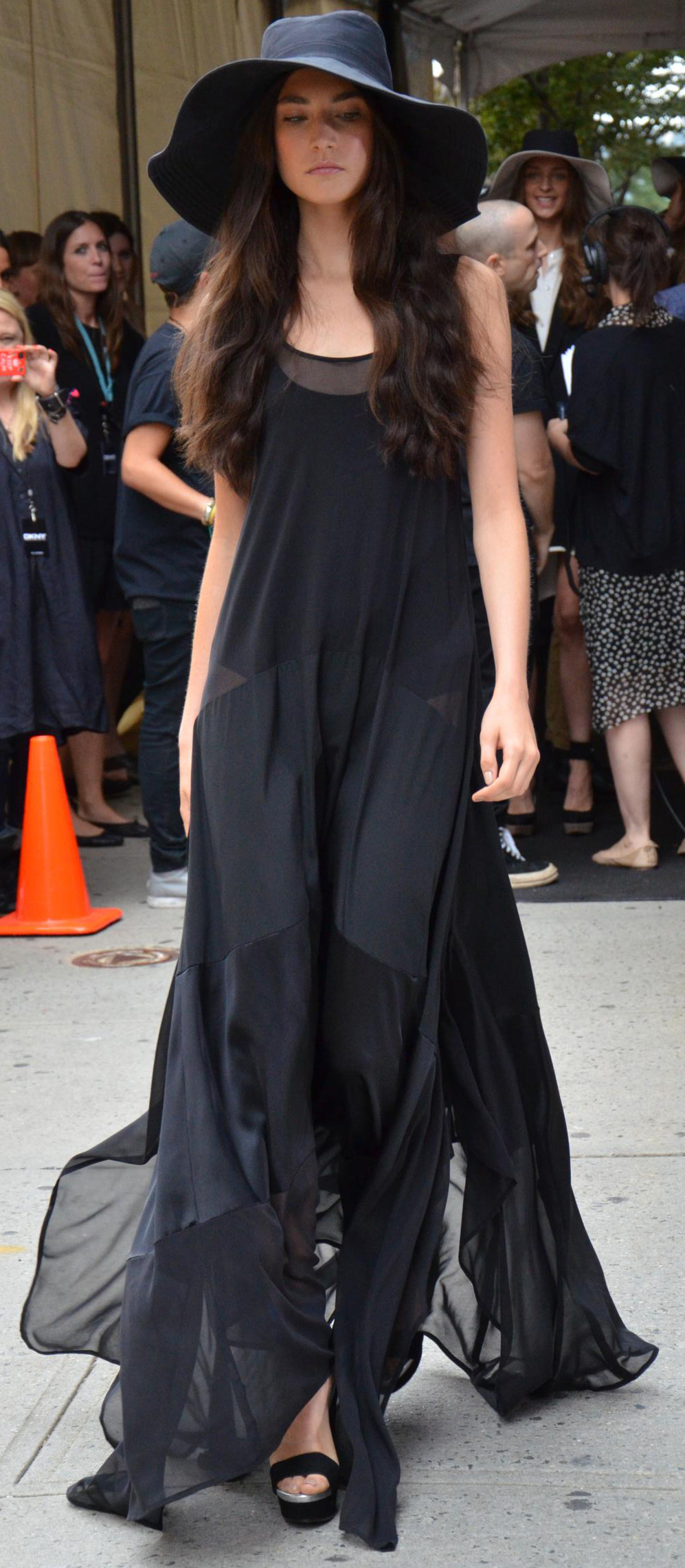 DKNY Spring 2012, Fashion Week, NYC